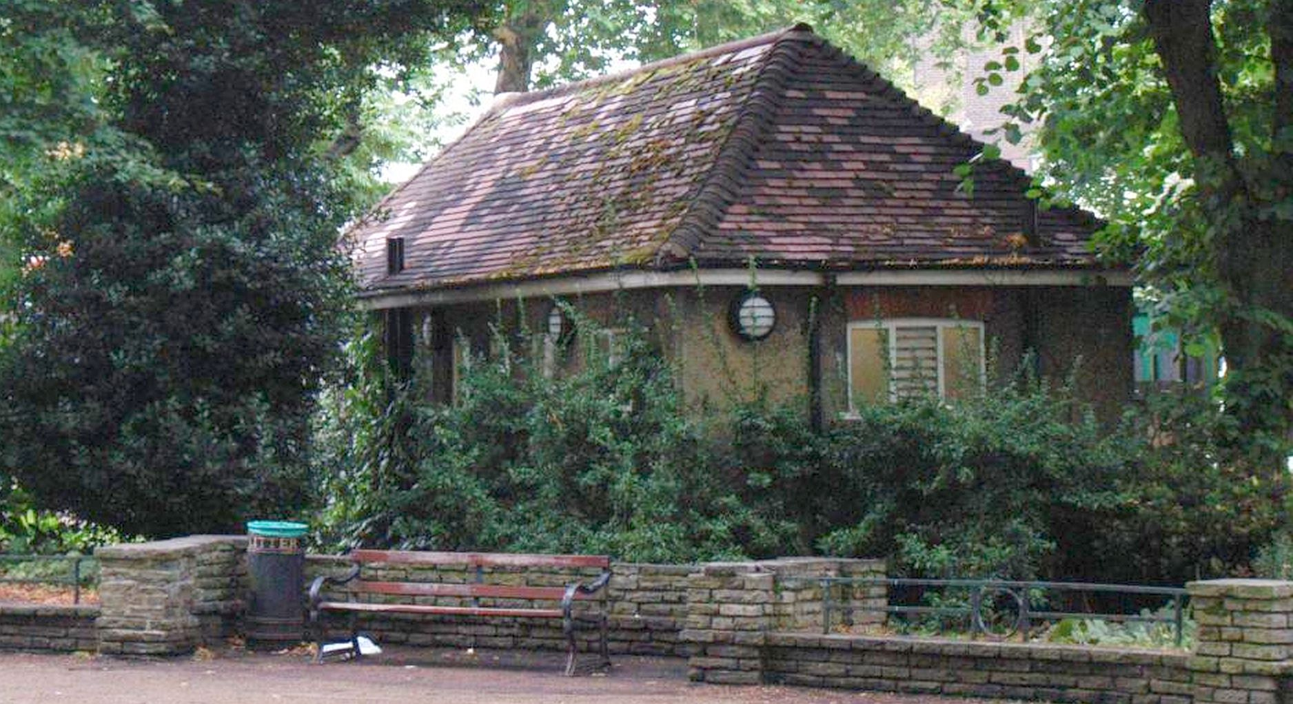 The design of public lavatories like this one in Pond Square, London, may be the origin of the term "cottaging".